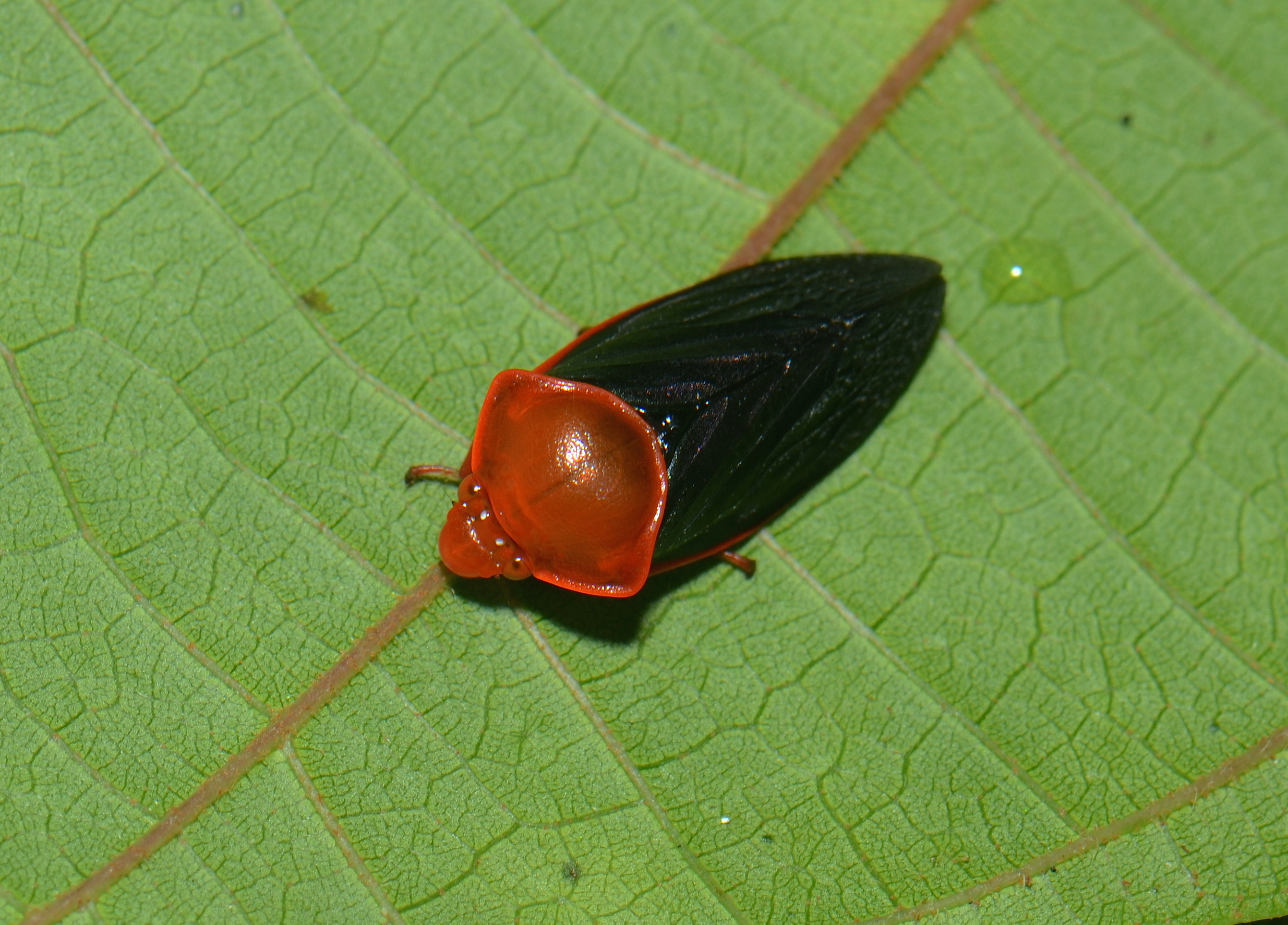 Thanks to Bernard Dupont for ID